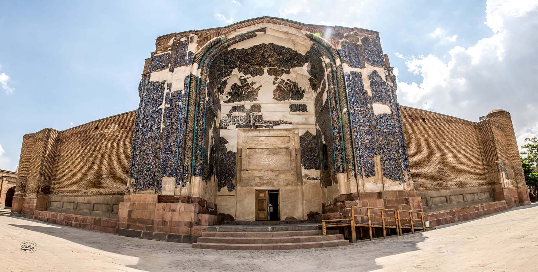 The grate entrance of Blue Mosque, Tabriz, Iran